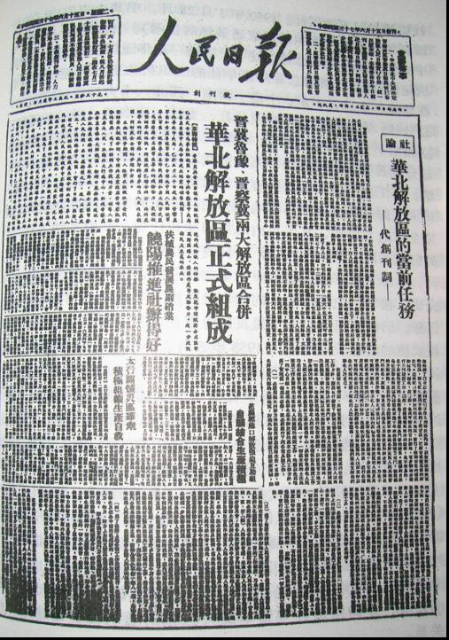 People's Daily inaugural issue of 1948-06-15's new version